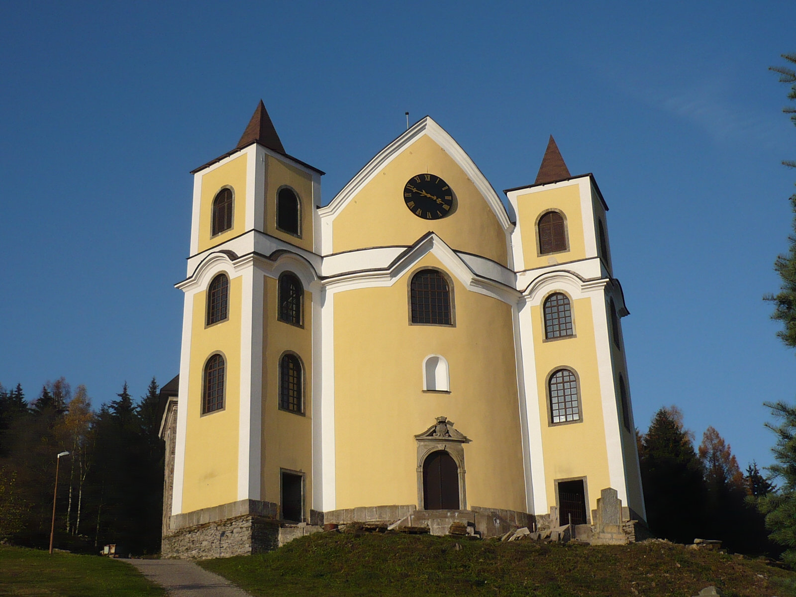 Church in Neratov, Czech Republic